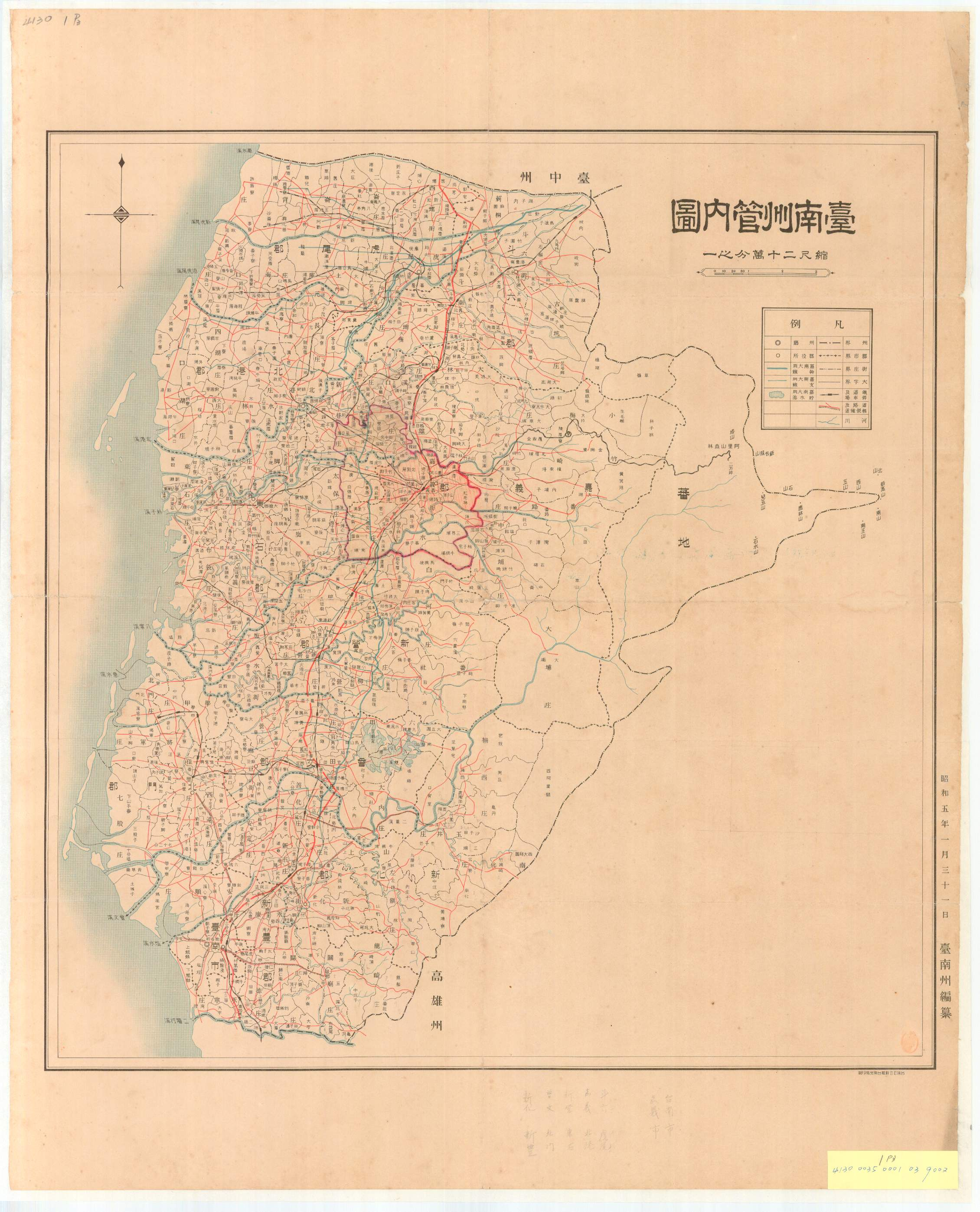 The urban plan of Tainan-shu(prefecture)